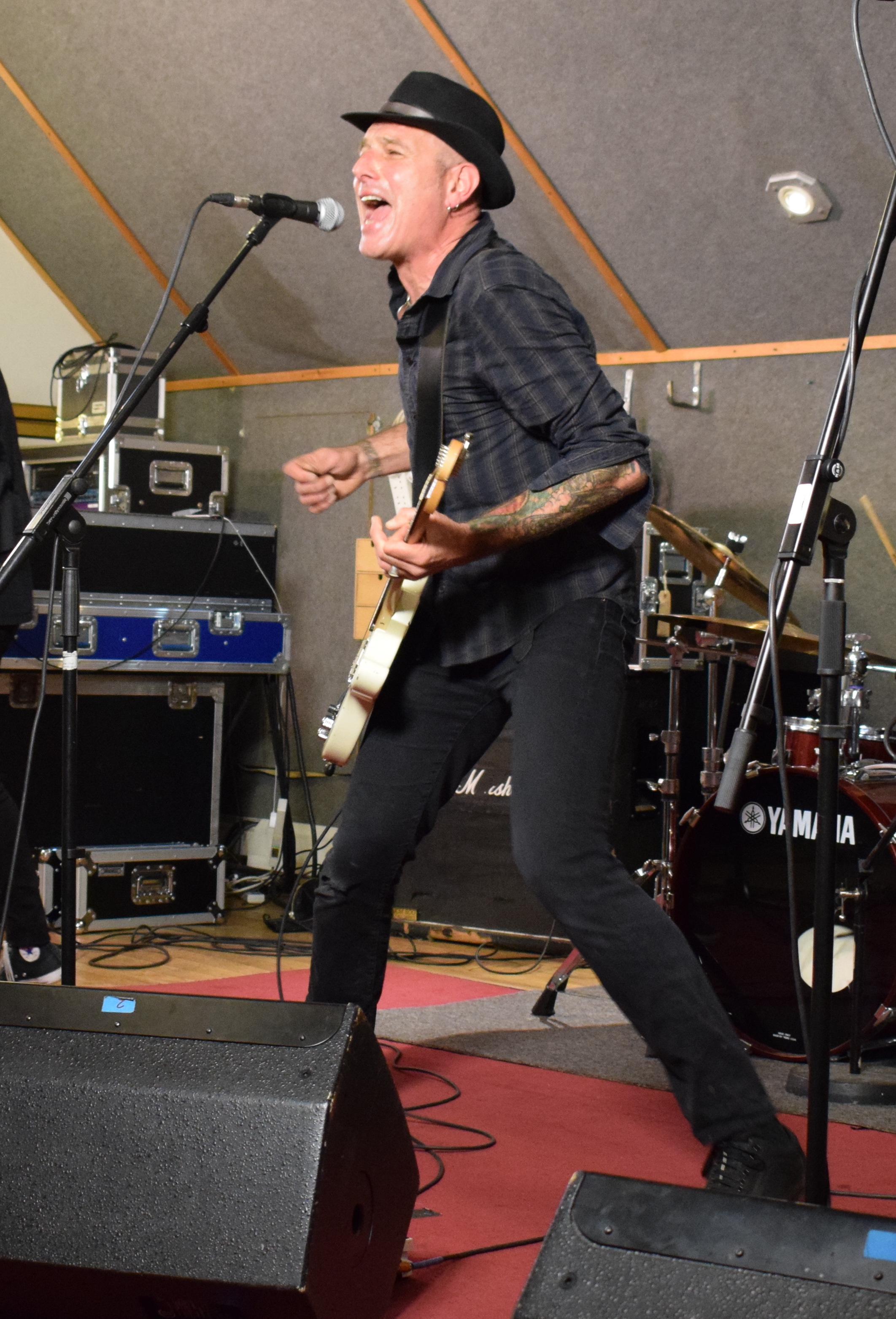 Tom Spencer performing with the Professionals at a VIP fan event at their rehearsal studio in Shepherds Bush, London.